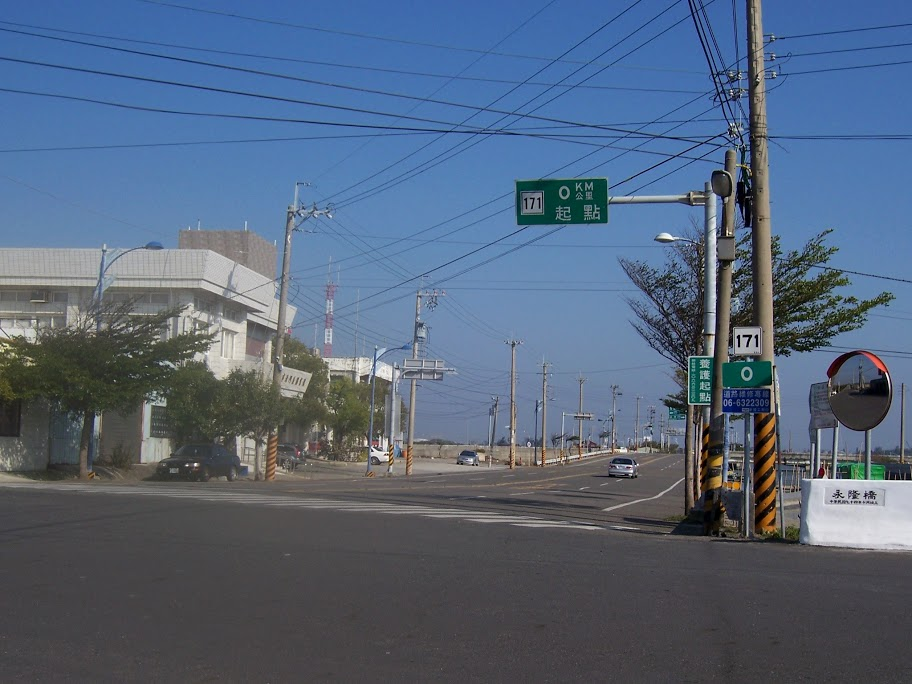 The west end of county highway no. 171 of Taiwan, in Beimen Dist, Tainan City